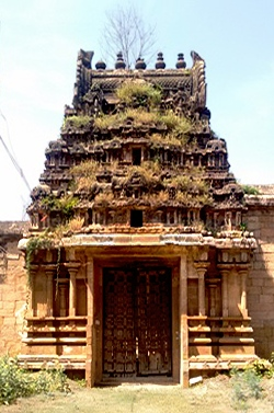 Thukachi abatsahayesvarartemple துக்காச்சி ஆபத்சகாயேஸ்வரர்கோயில்